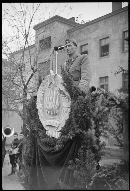 Govor Jove Vukotića prilikom polaganja zakletve regruta Prve beogradske brigade KNOJ-a, Beograd, 24.11.1944. Inventarski broj: VIS 072 03